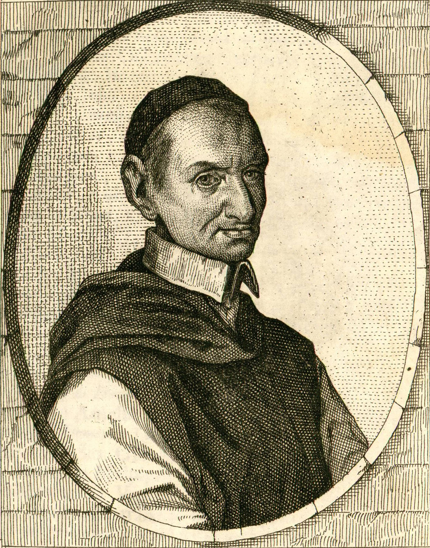 Portrait of Paolo (Silvio) Boccone in the age of 64, dressed as a Cistercian monk, by an unknown engraver, from Museo di Fisica e di Esperienze Variato etc. (1697), one of his own books.